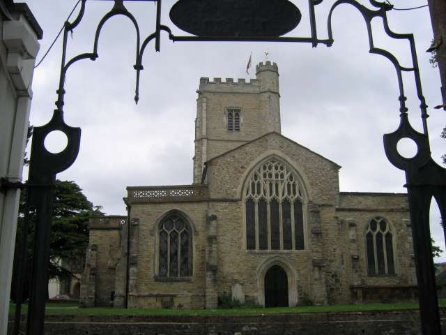 West end of St Mary's parish church, Axminster, Devon, showing the 15th-century Perpendicular Gothic west window